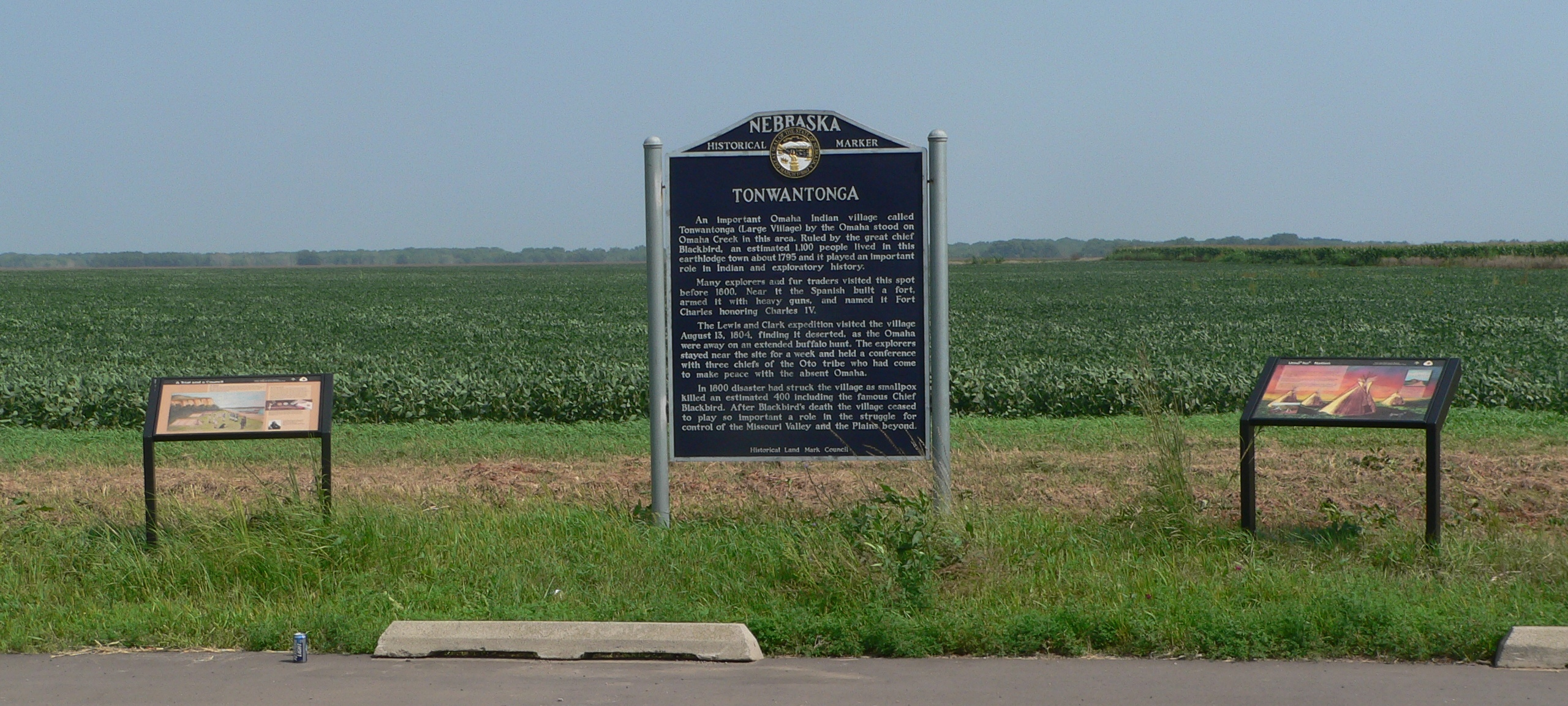 Tonwantonga site: pulloff with historical markers beside U.S. Highway 75/77 northeast of Homer, Nebraska. A sign immediately to the right of the large blue historical marker states "Ton won tonga, the Omaha Tribe's Big Village, existed in this spot and was occupied intermittently from 1775 to 1845." Camera is facing generally eastward.